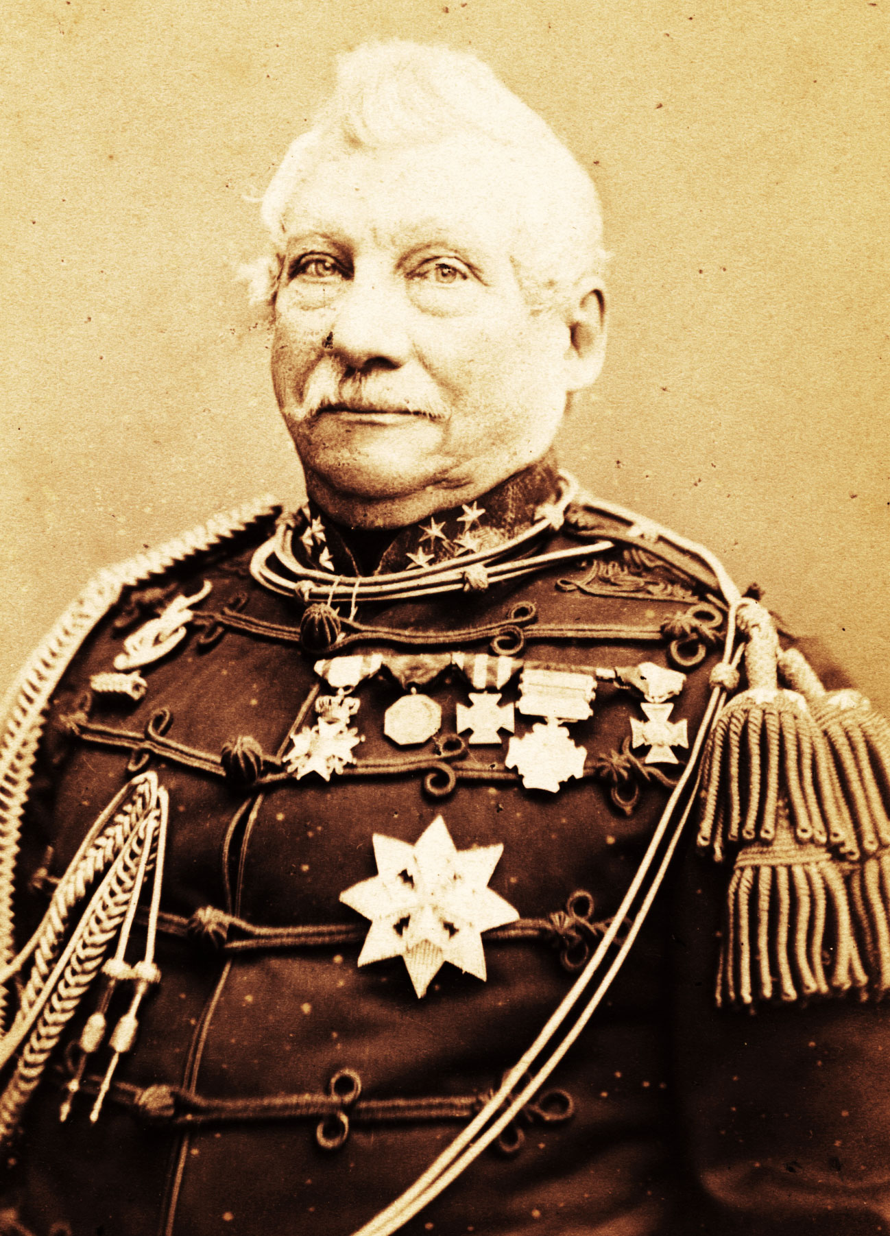 Jan van Swieten